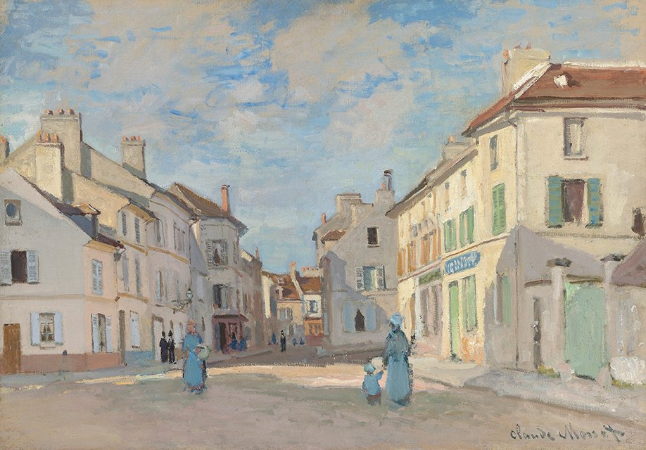 L’Ancienne rue de la Chaussée, Argenteuil by Claude Monet, oil on canvas, 46.3 x 65.7 cm., 1872